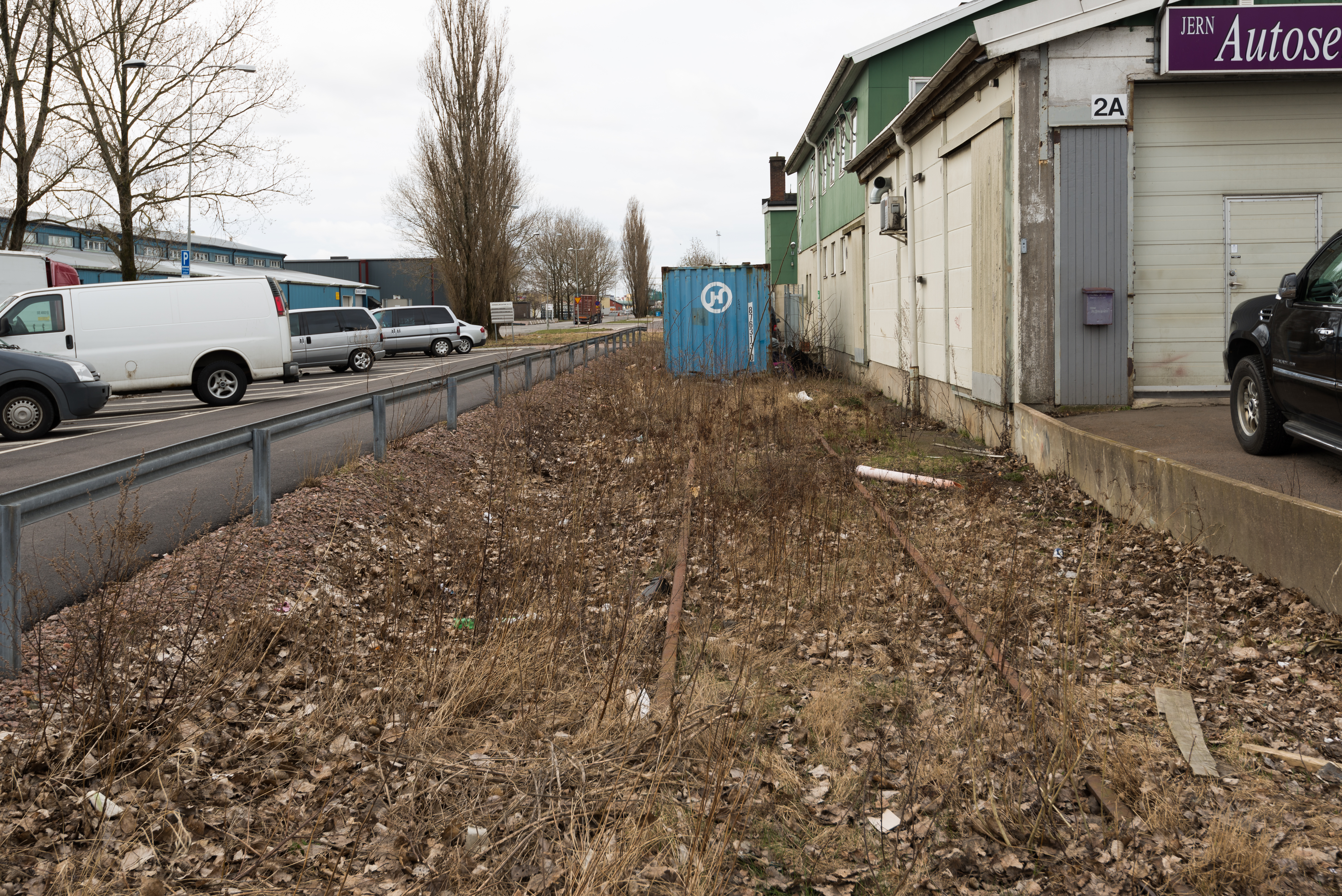 Disused railway track at Ringö, Hisingen (Gothenburg).